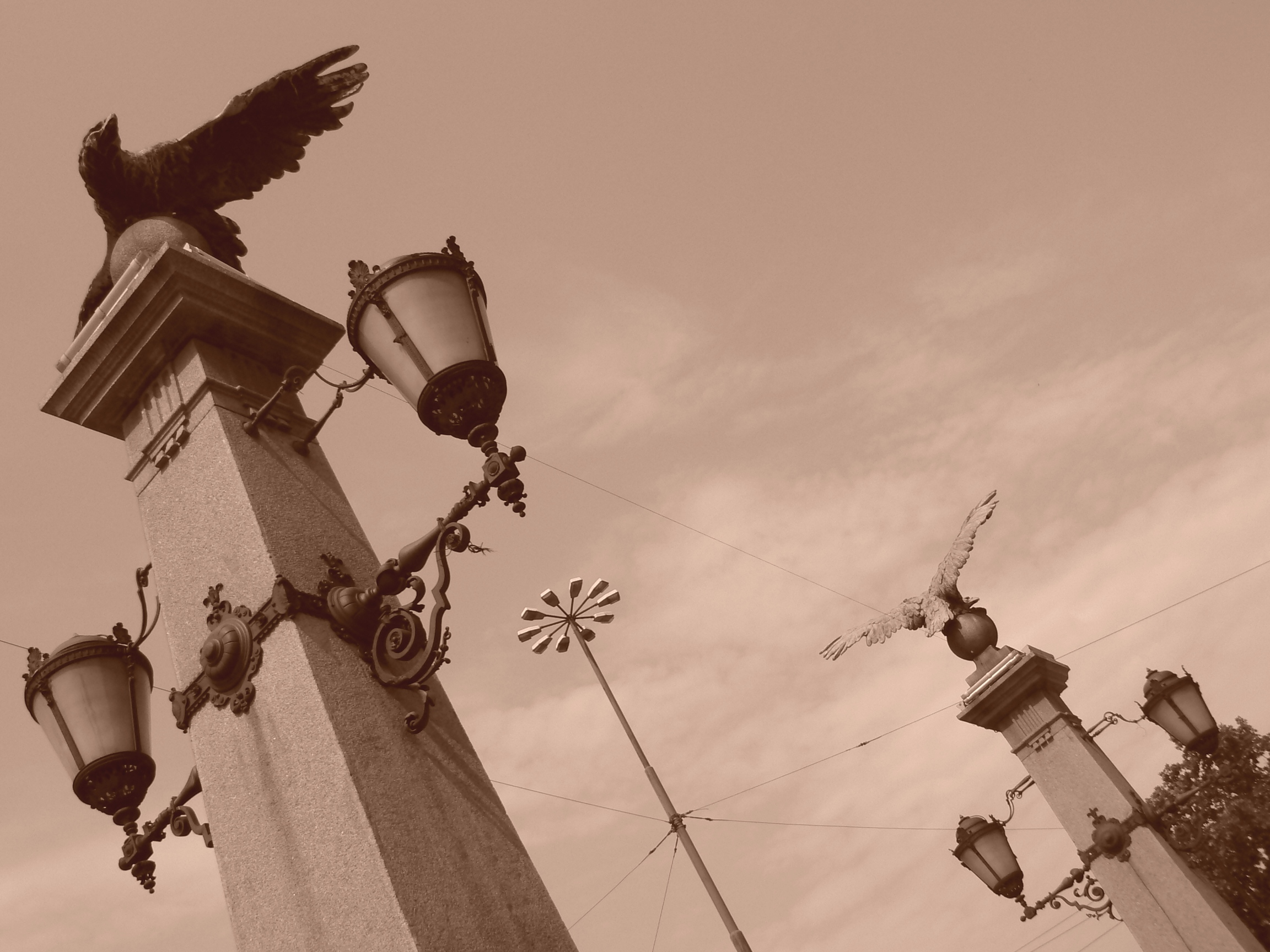 Orlov most (Eagles' bridge, Sofia). In sepia